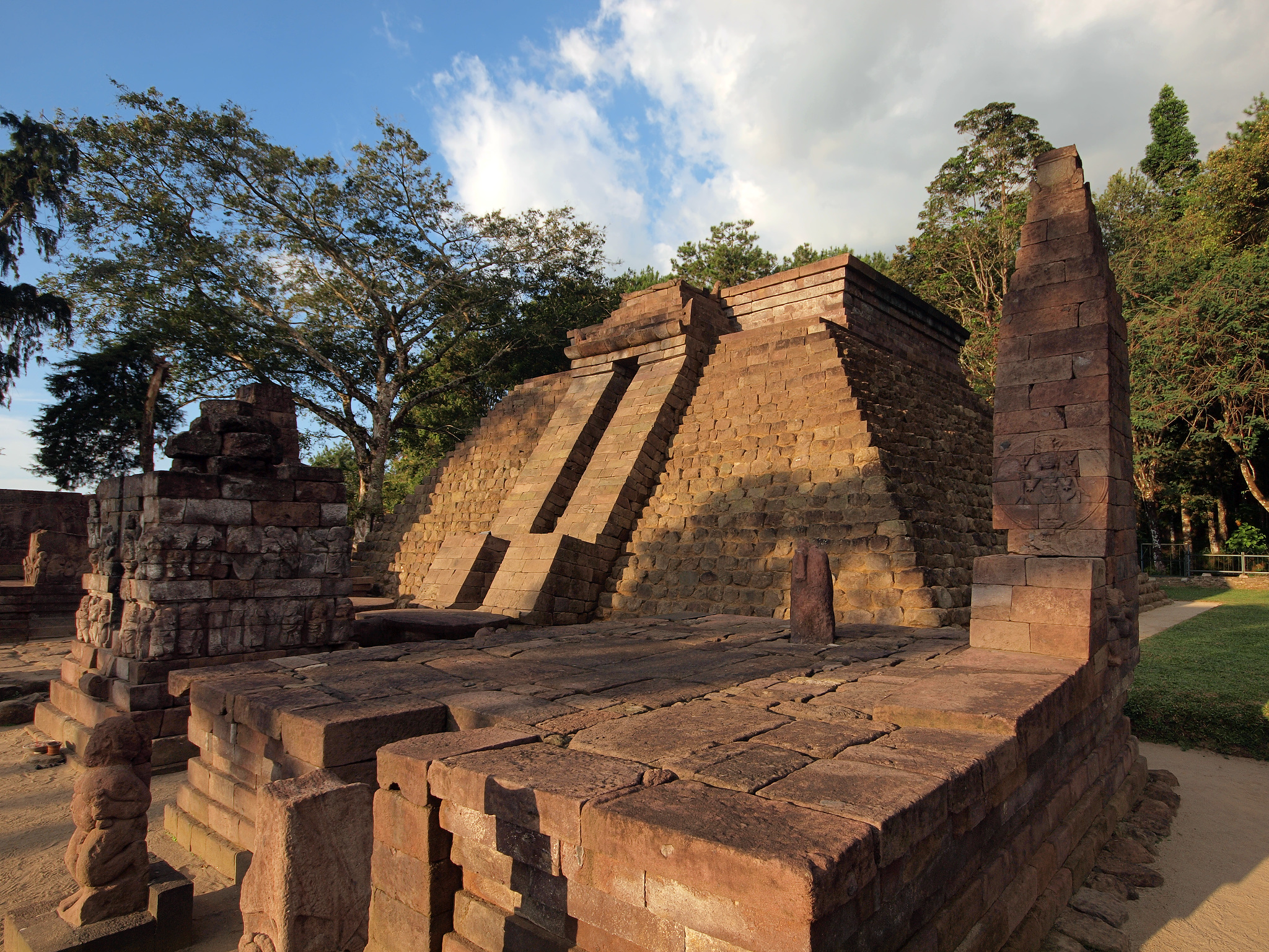 Candi Sukuh, Central Java